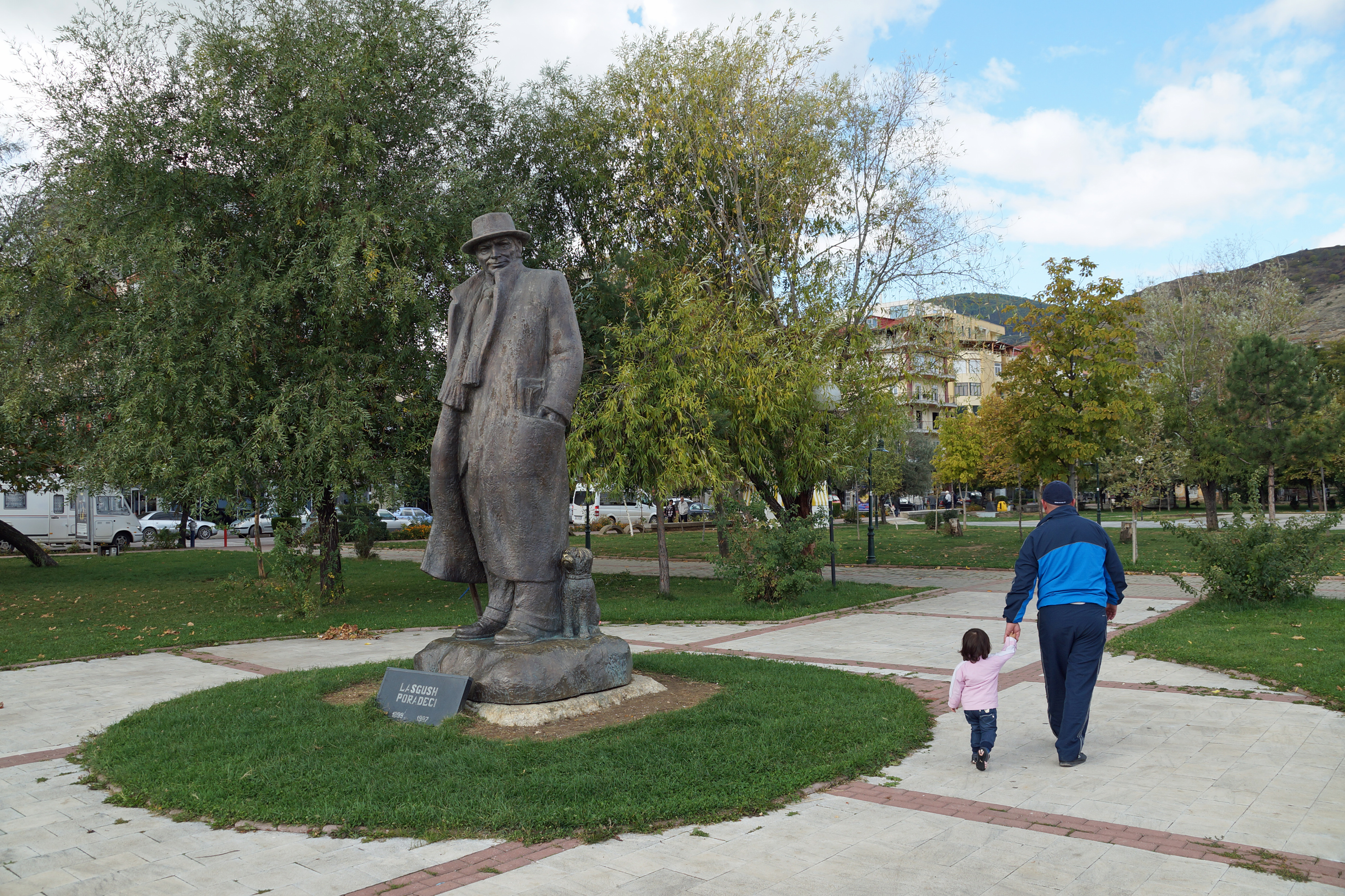 Pogradec: park at the lake with statue of Lasgush Poradeci